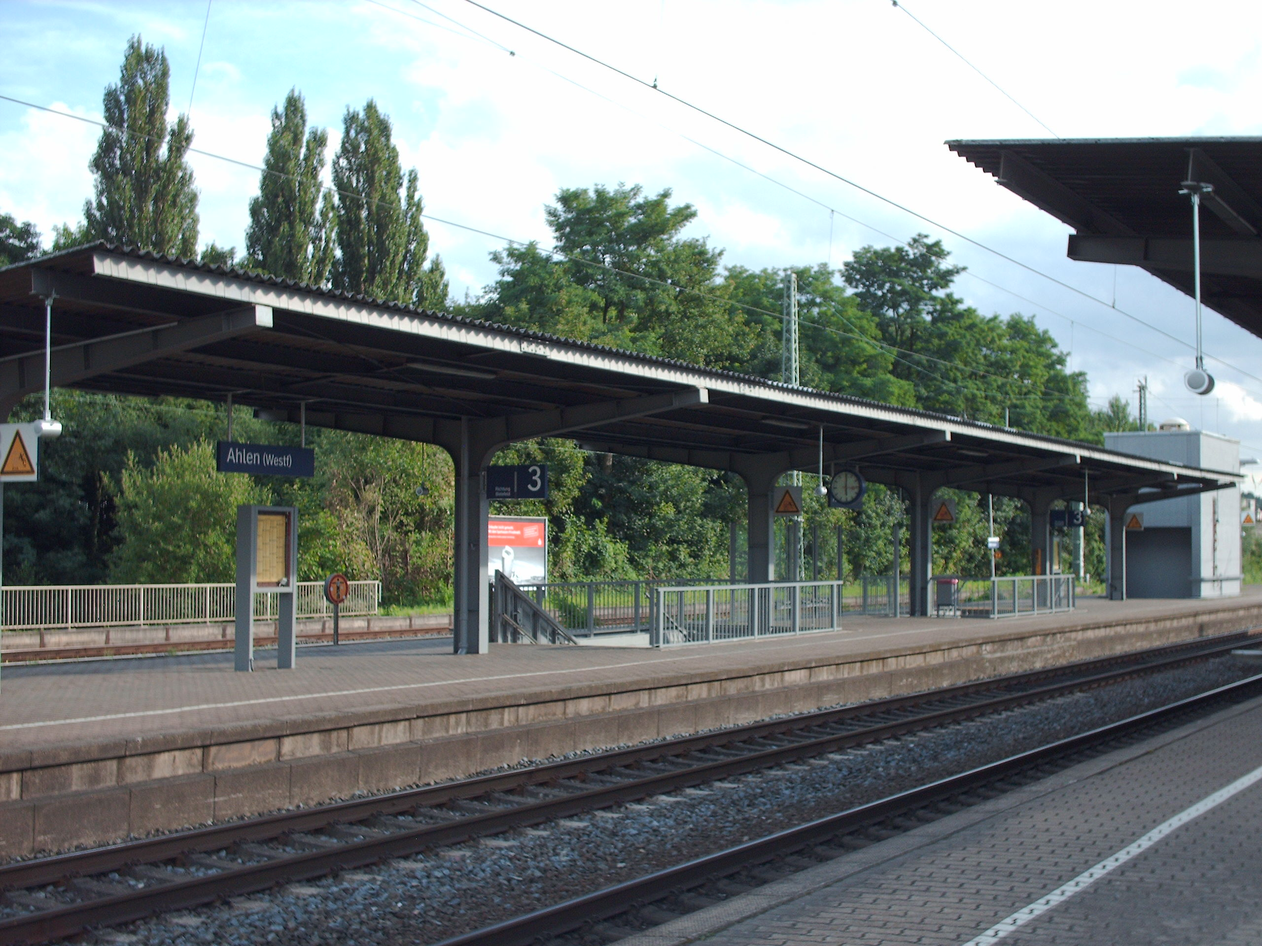 Ahlen (Westf) station, Ahlen, Germany check usage